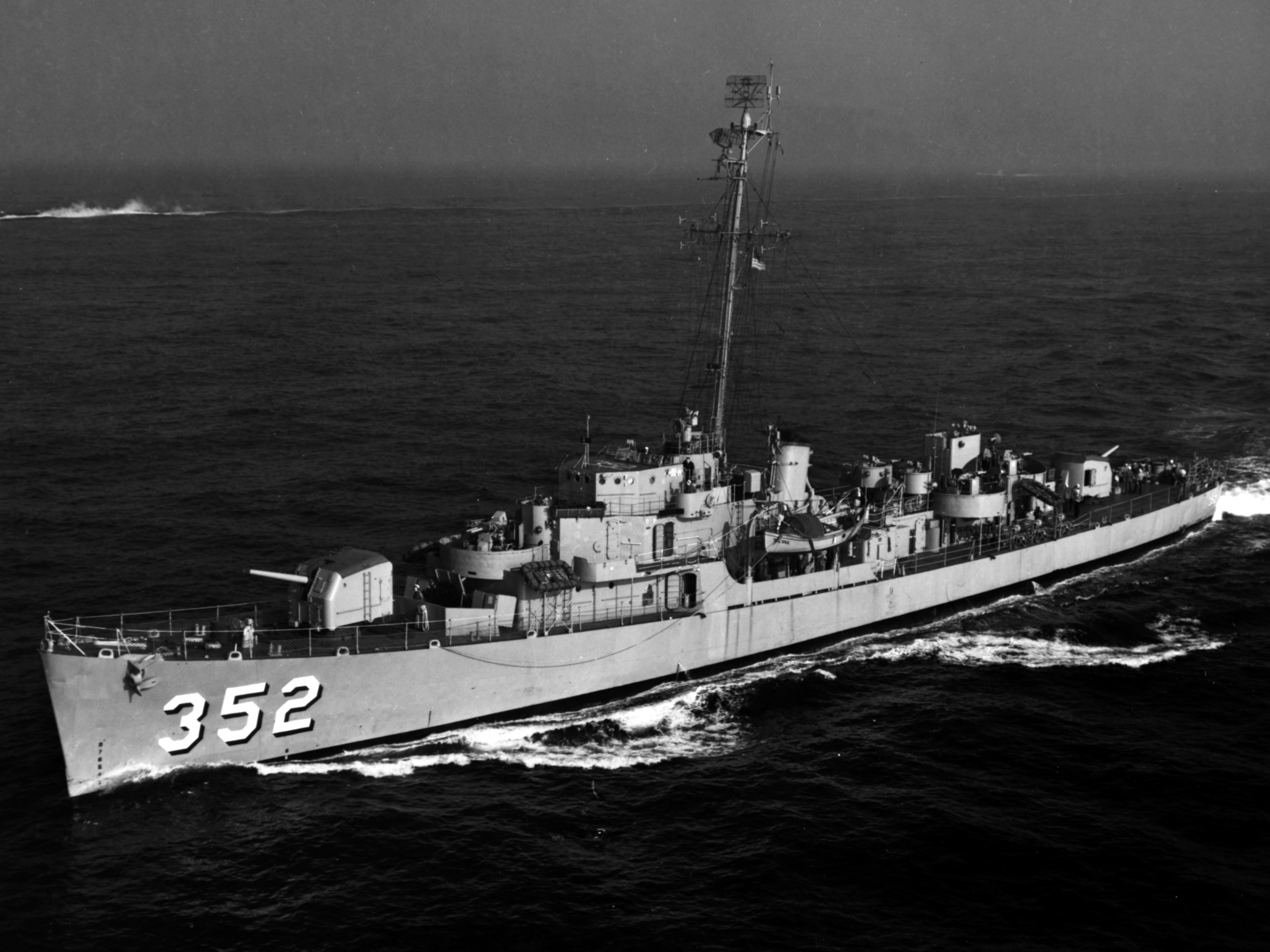 The U.S. Navy destroyer escort USS Naifeh (DE-352) underway at sea on 28 January 1956.